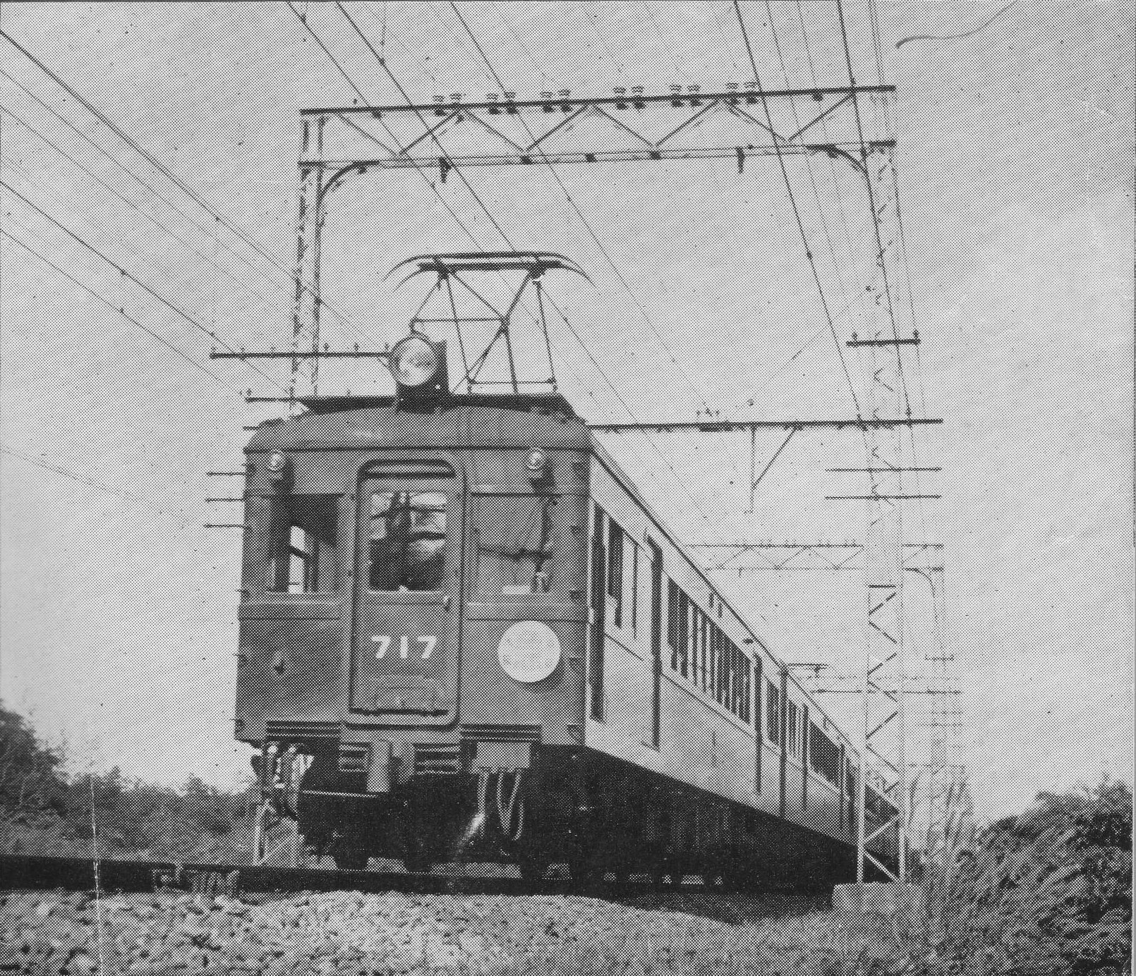 Hankyu 717.